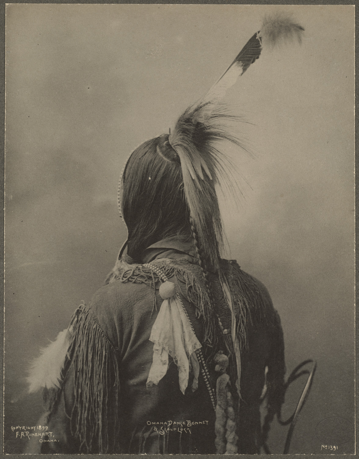 BPLDC no.: 09_06_000034 Rinehart no.: 1391 Title: Omaha Dance Bonnet & Scalp Lock Photographer: Rinehart, F. A. (Frank A.) Copyright date: 1899 Extent: 1 photographic print : platinum Genre: Platinum prints; Portrait photographs Subject: Indians of North America; Omaha Indians; Trans-Mississippi and International Exposition (1898 : Omaha, Neb.) BPL Department: Print Department